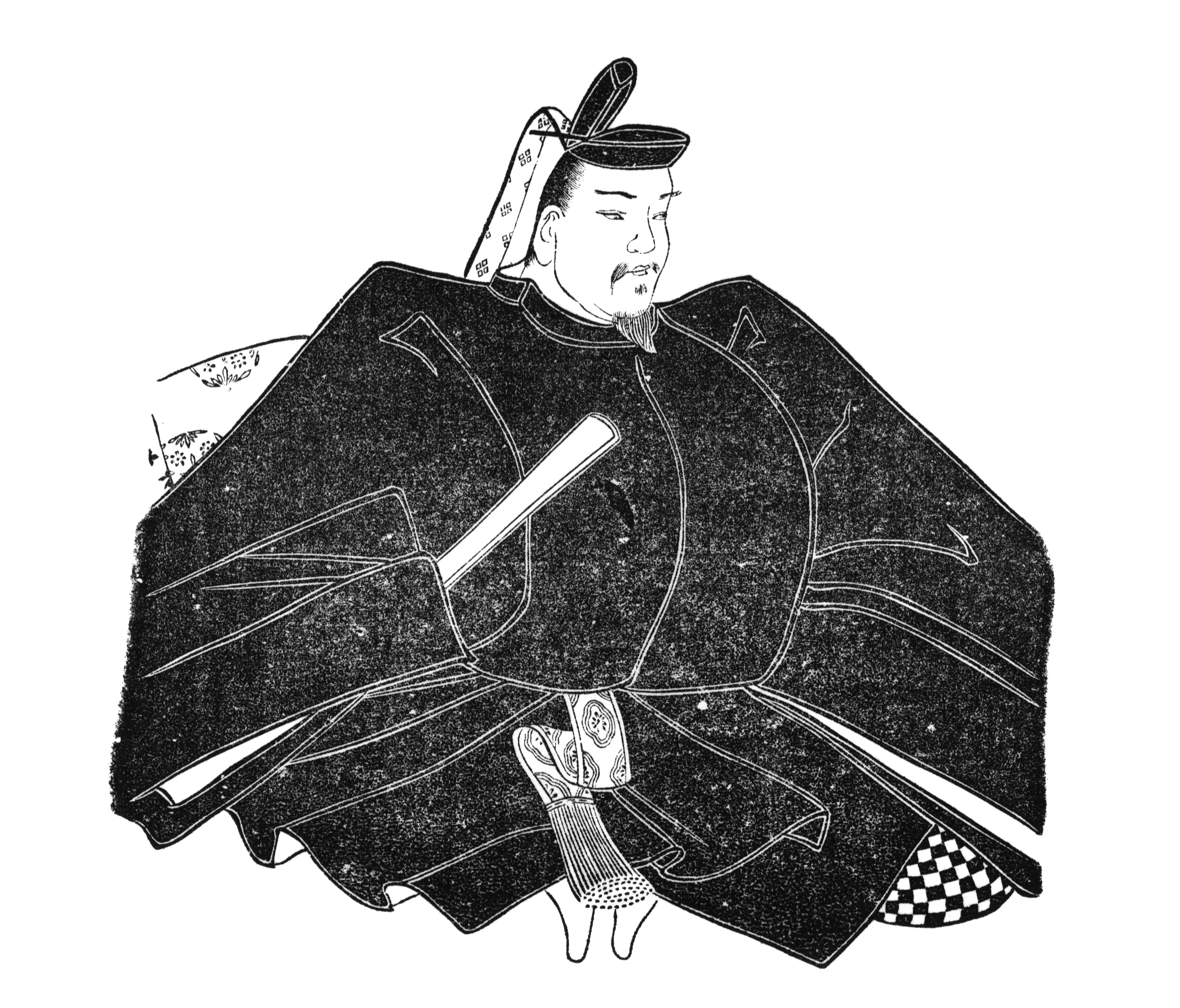 Portrait of Taira no Sukemori